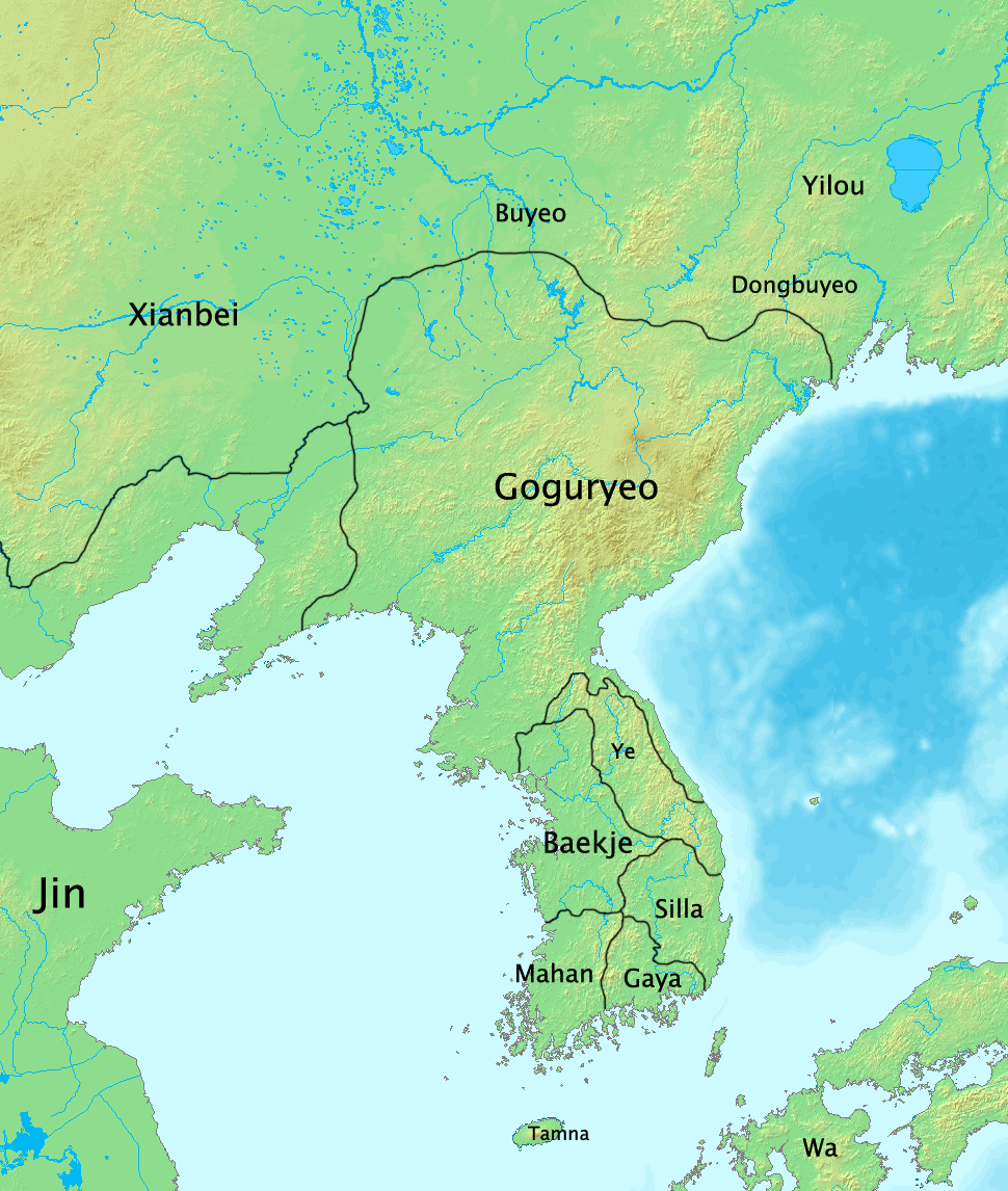 Map showing actions in the First Goguryeo-Tang War.